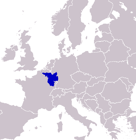 Position of Saar Lor Lux within Europe